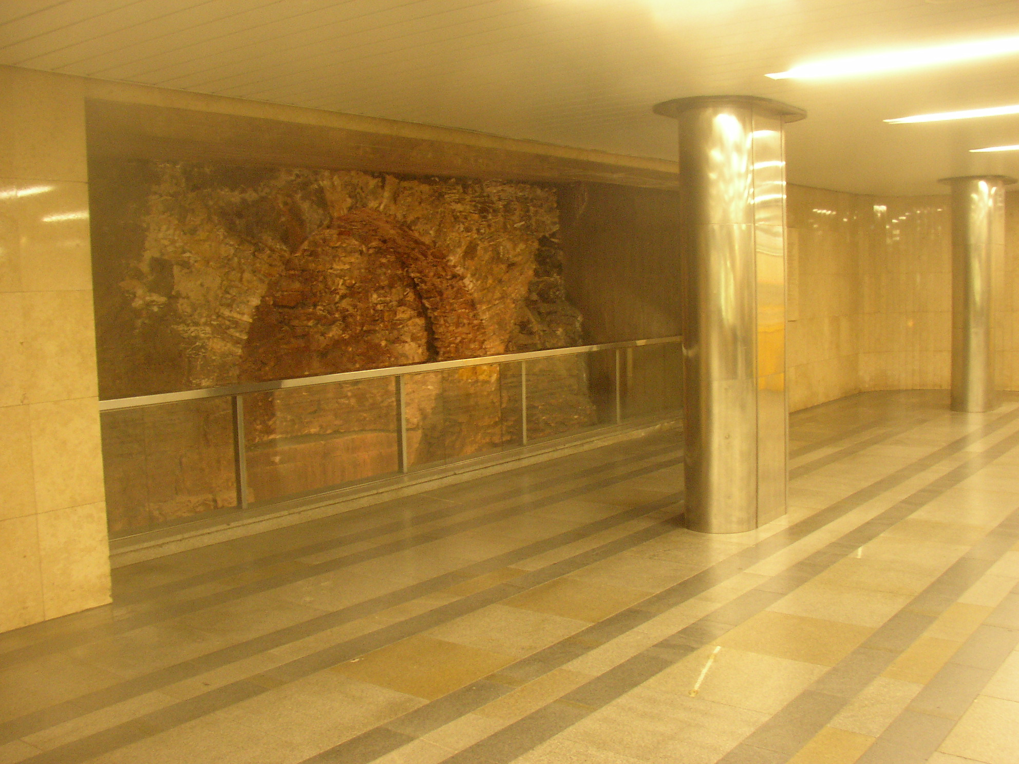 Můstek station of Prague Metro. Remains of a medieval bridge (eponymous for the adjacent street and station as můstek means "small bridge" in Czech) over former moat between Old and New Town of Prague. Discovered during construction of the station, preserved and visible from subterranean vestibule of the station (Line A).